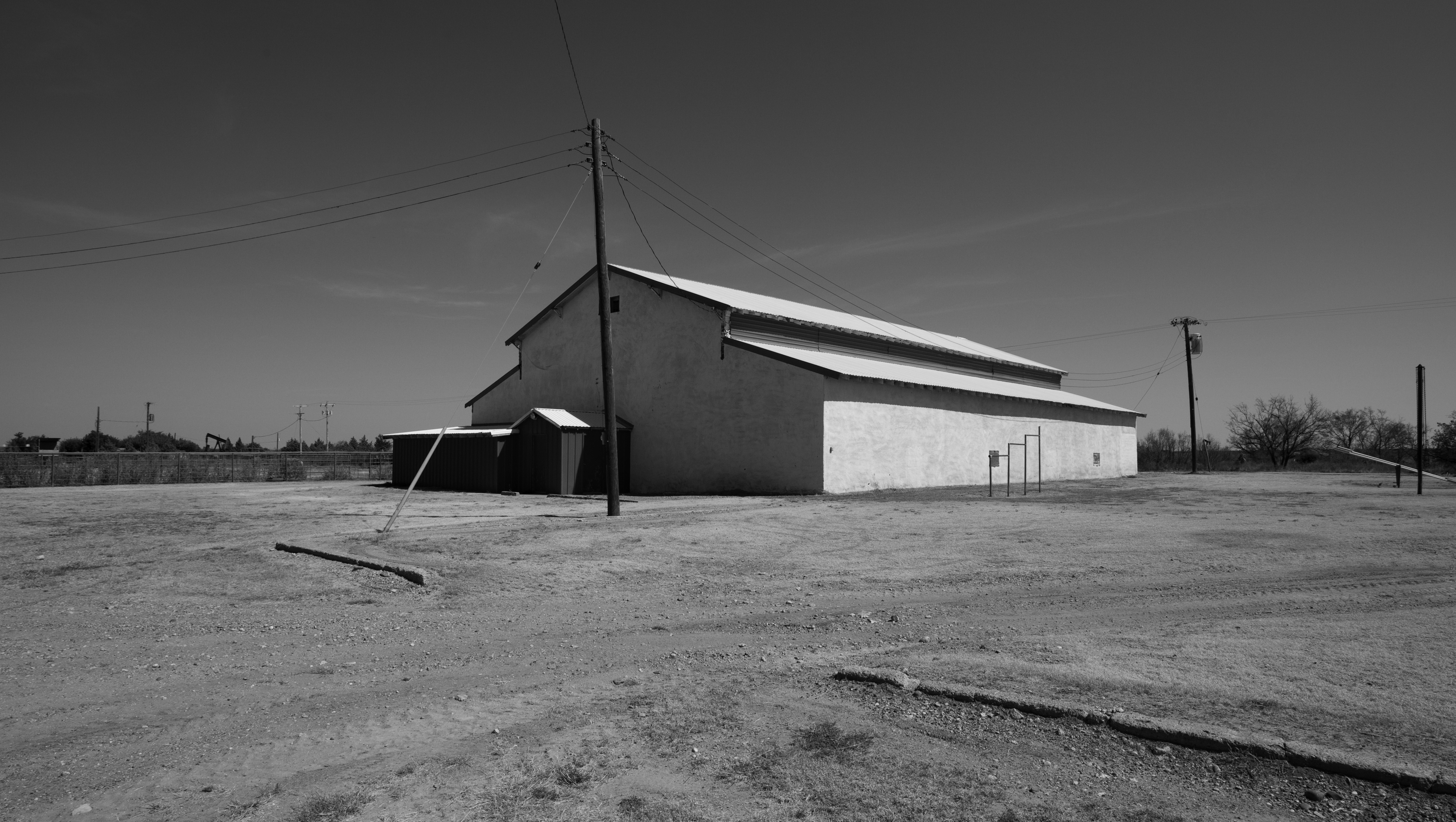 The gym at the abandoned school in Girard, Texas of Kent County.